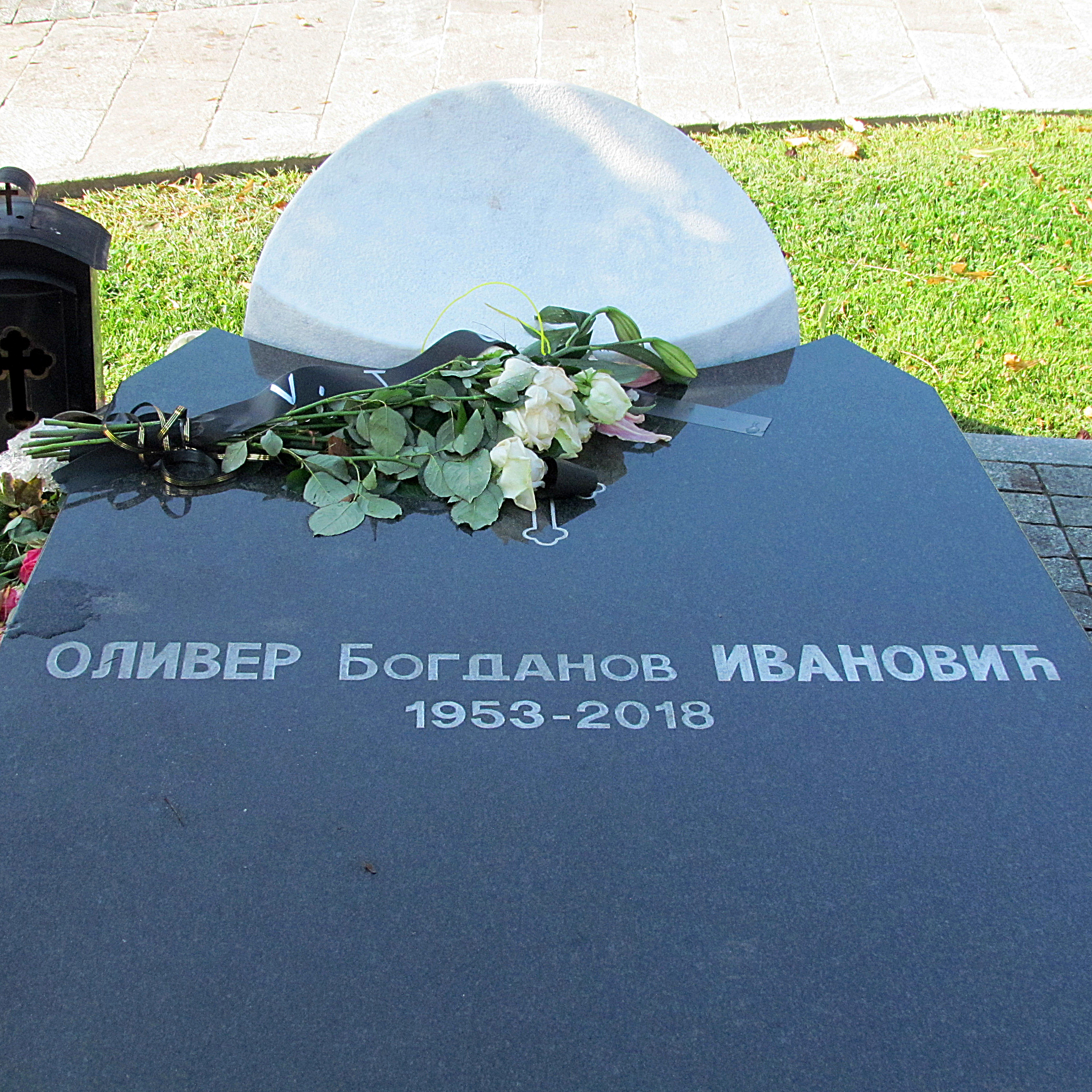 Tomb of Oliver Ivanovic Serbian politician (Belgrade New Cemetery).